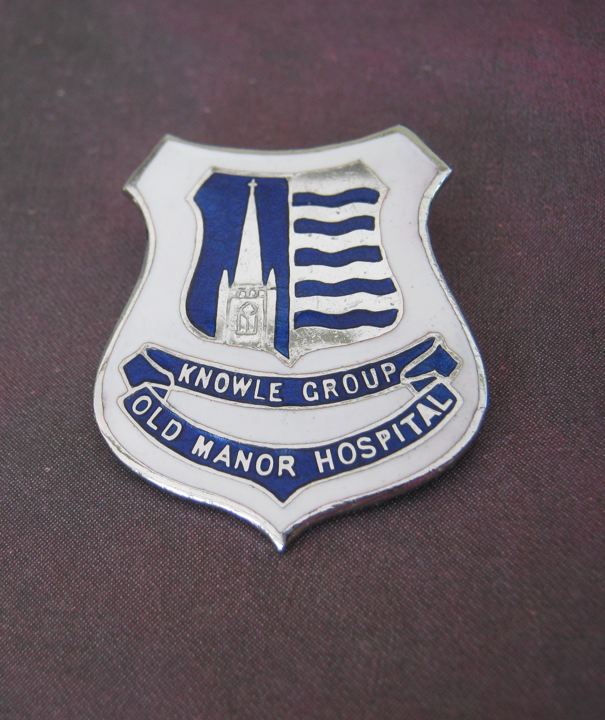 A lapel badge of 27 x 37 mm awarded to nurses who achieved their mental health nursing qualification (RMN) at the Old Manor Hospital Nurse Training School, Salisbury, between approximately 1960 and 1974. It shows the spire of Salisbury Cathedral and the traditional 5 rivers of Salisbury. The holder's name is engraved on the reverse. At that time the Old Manor Hospital was within the Knowle Group of hospitals. The Old Manor Hospital closed in about 2003